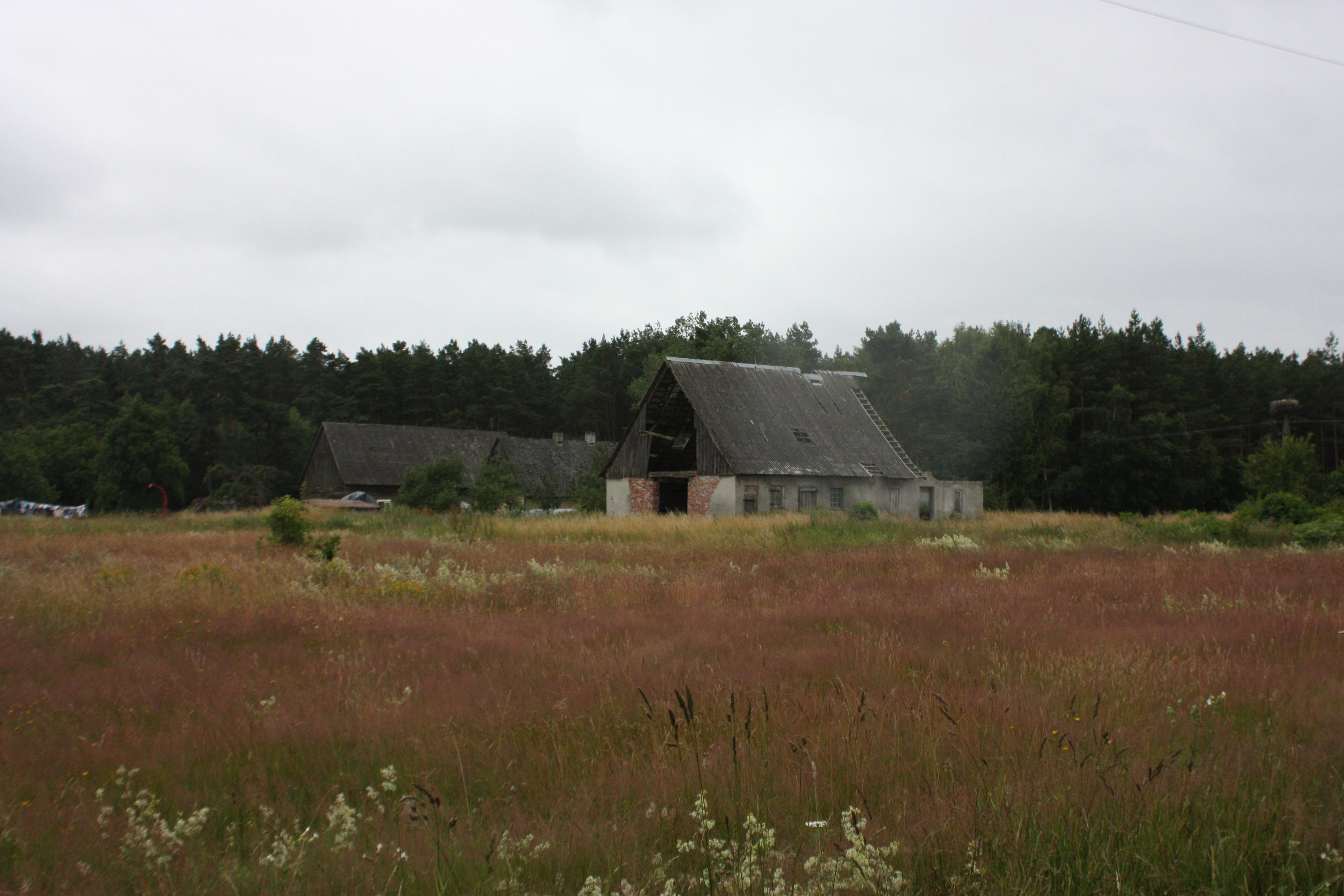 Gać (gmina Główczyce),Gać [gat​͡ɕ] (German Speck) is a village in the administrative district of Gmina Główczyce, within Słupsk County, Pomeranian Voivodeship, in northern Poland.[1] It lies approximately 11 kilometres (7 mi) north-east of Główczyce, 38 km (24 mi) north-east of Słupsk, and 85 km (53 mi) north-west of the regional capital Gdańsk. Before 1945 the area was part of Germany. For the history of the region, see History of Pomerania. The village has a population of 50.